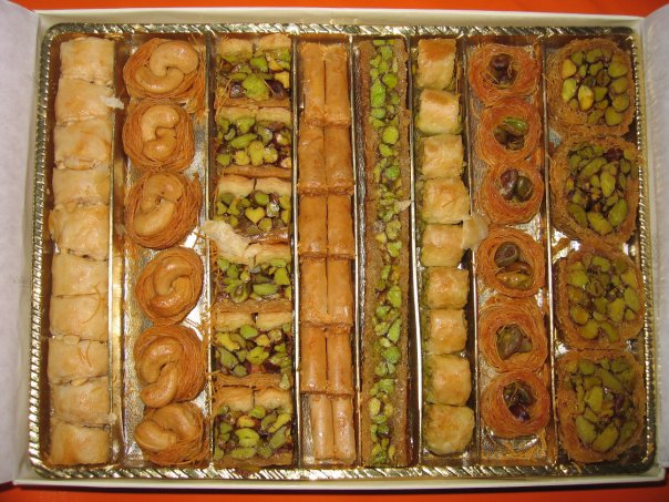 Aleppo sweets